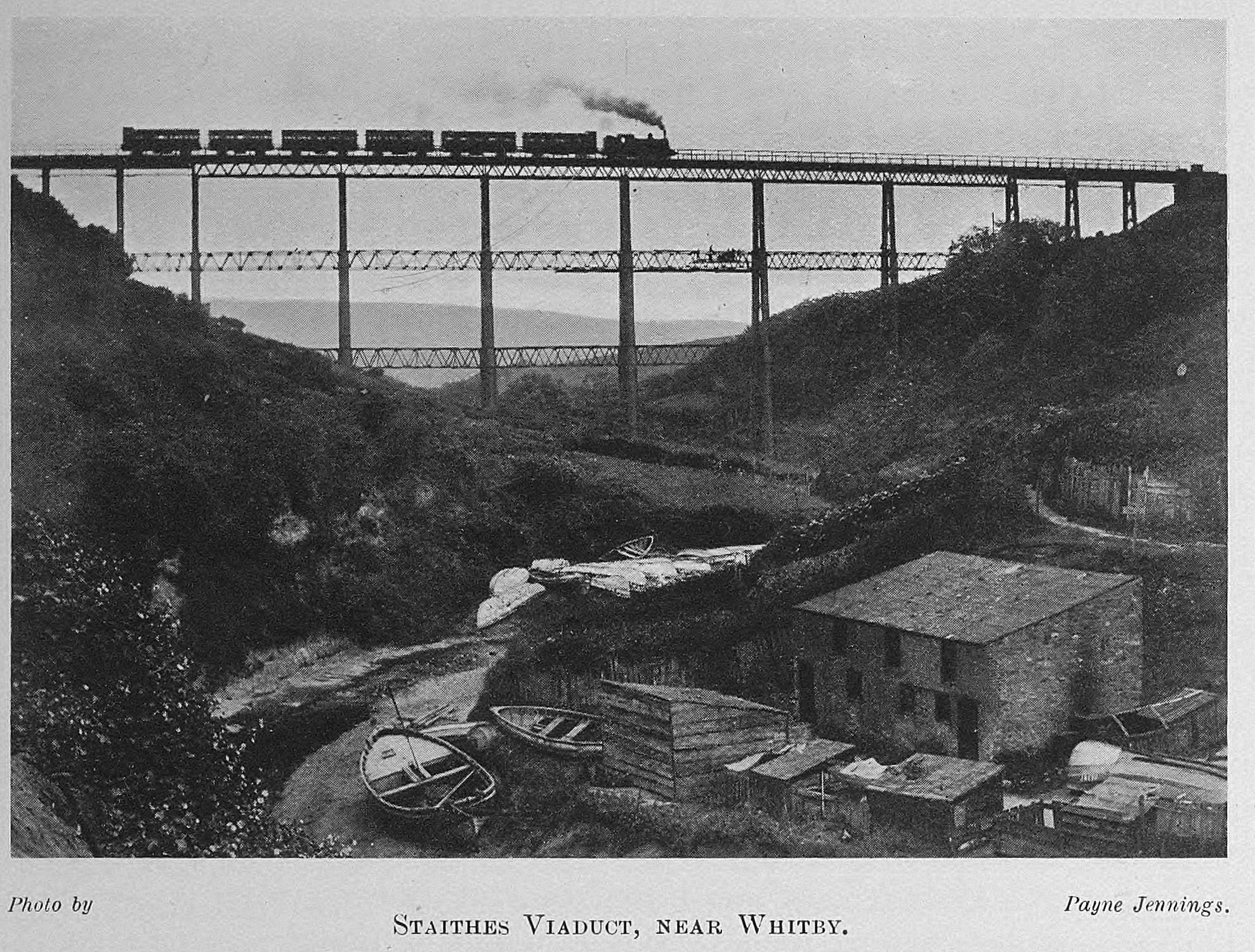 See list of illustrations in souce pages ix to xvi Descriptions are associated with images, also check index for additional text